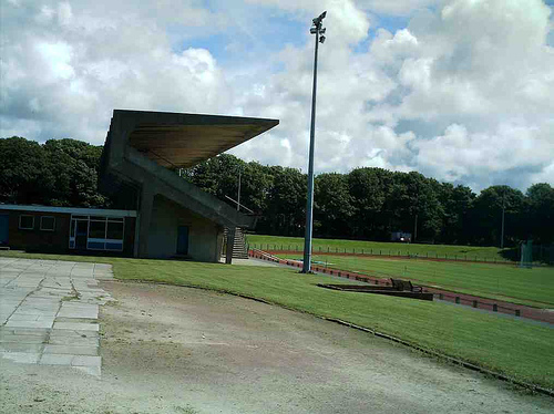 A picture of Dam Parks grandstand